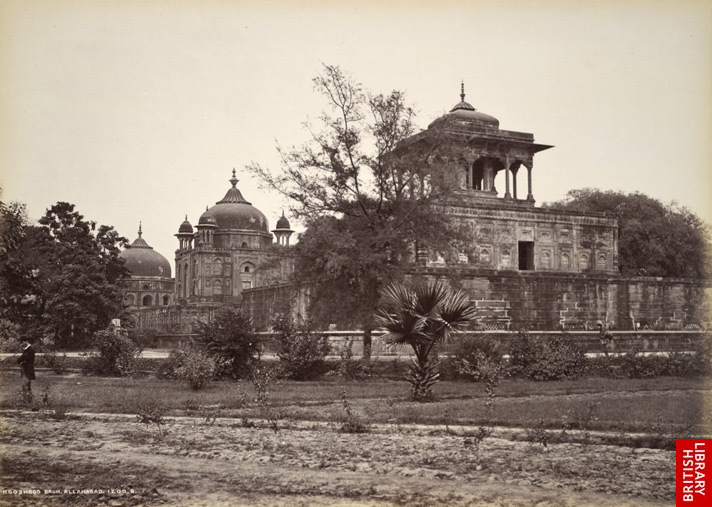 Khusru Bagh, a Mughal garden, built around, the tombs of Khusrau, son of Mughal Empereor, Jahangir, his wife, Sultan Begum, a Rajput princess, and his daughter, Nithar Begam, Allahabad, Photograph - 1870s.